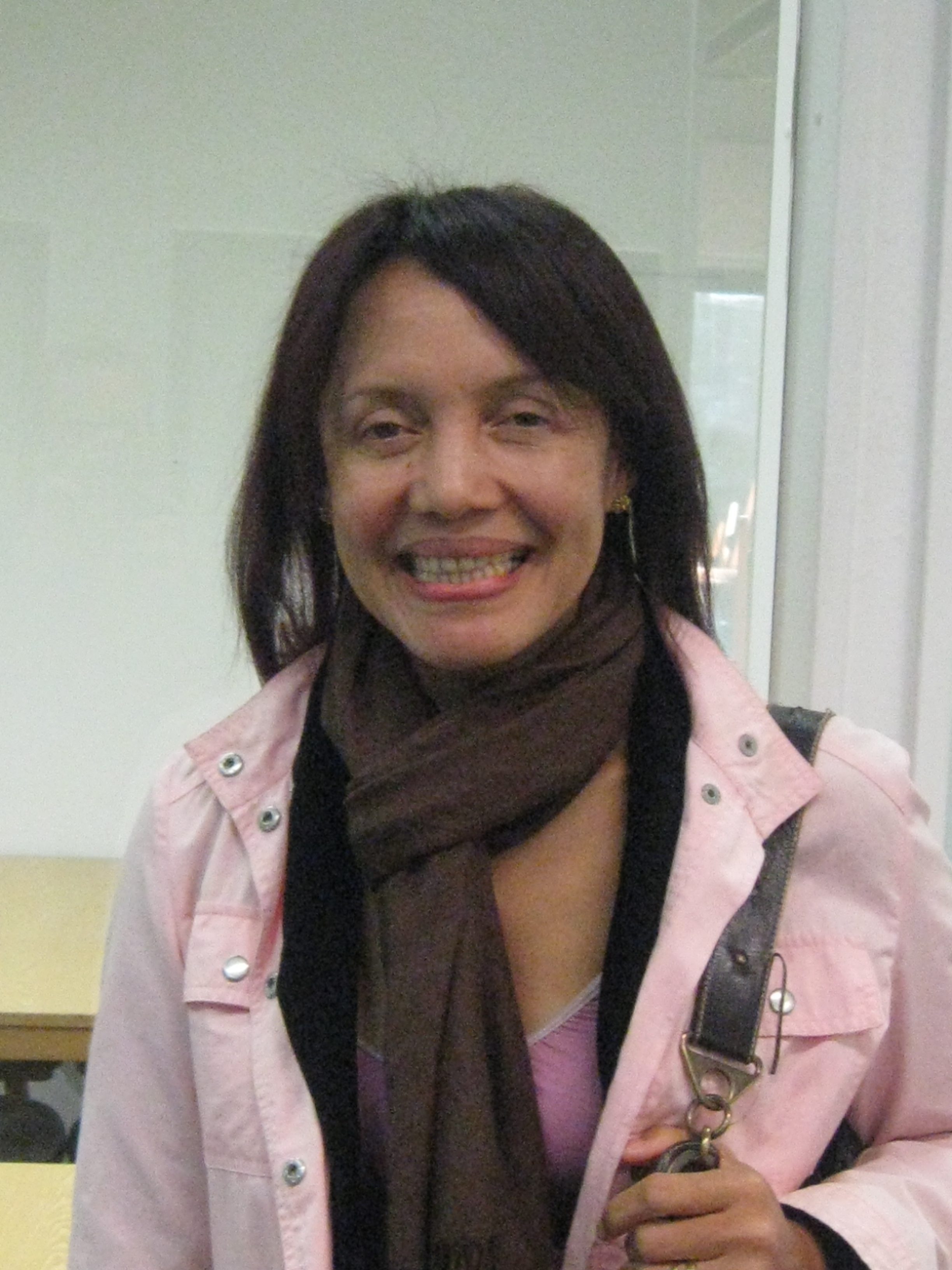 Artist and chess WFM Eneida Pérez de Lücke in Köln-Porz-Urbach, Germany, on 10th of October 2010 visiting SG Porz playing Hansa Dortmund in the German 2nd division west on invitation from FM/SIM Norbert Gallinnis.